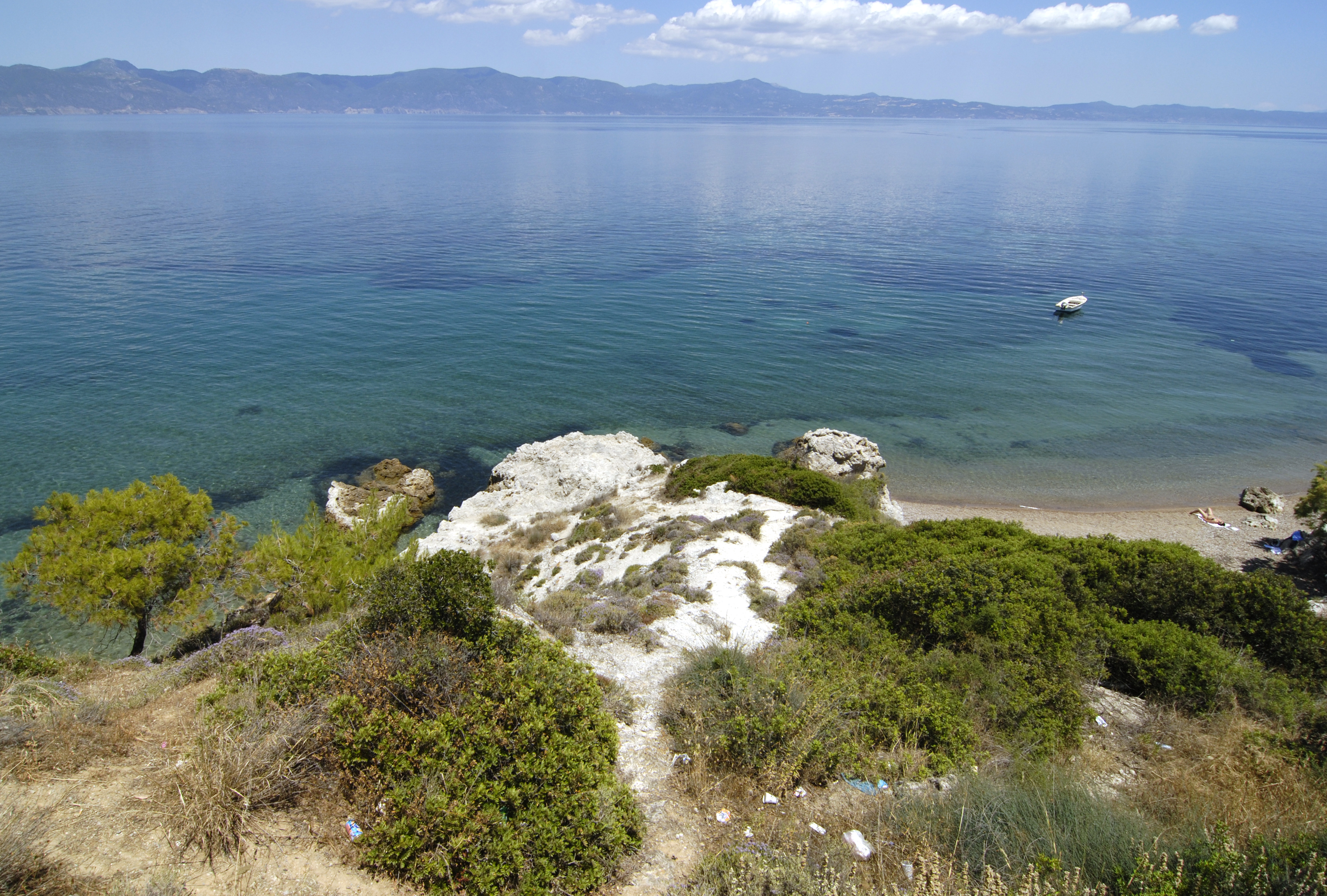 Photo from the seaside Ai Giannis church, near Kynos acropolis.